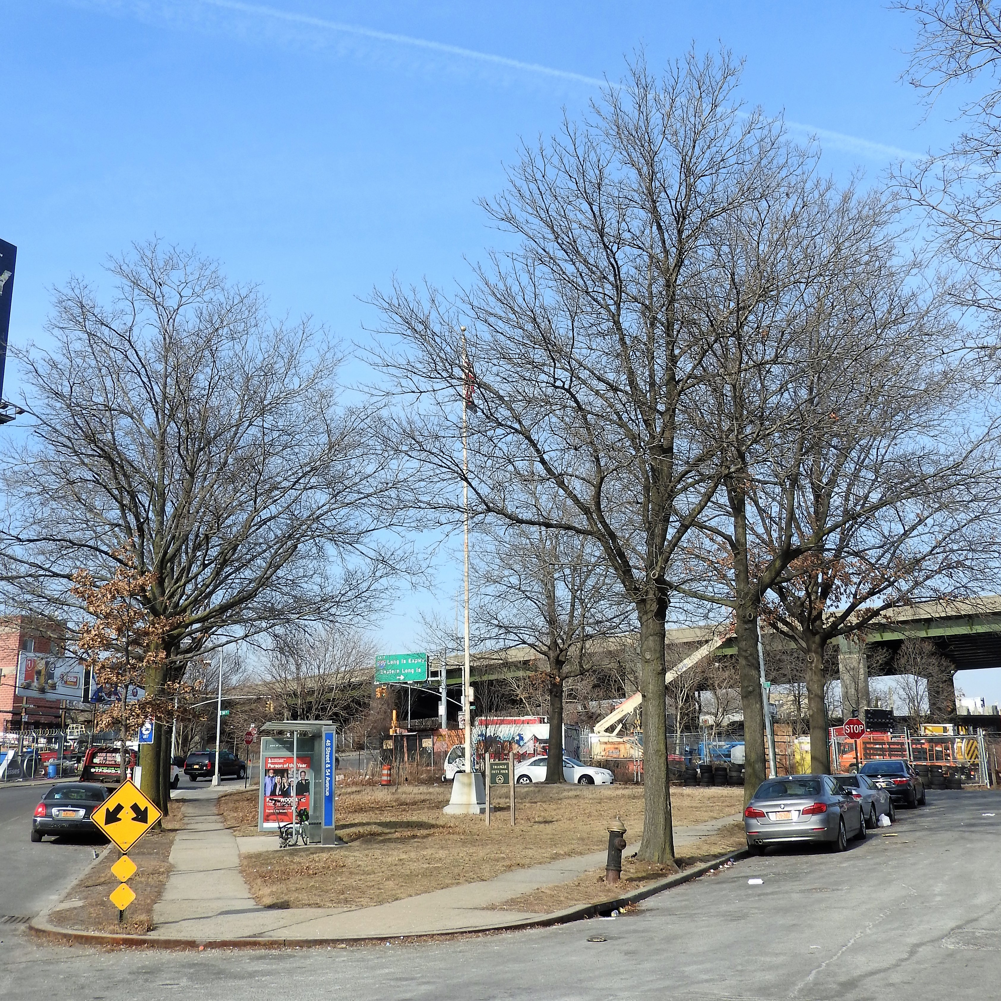 Looking north